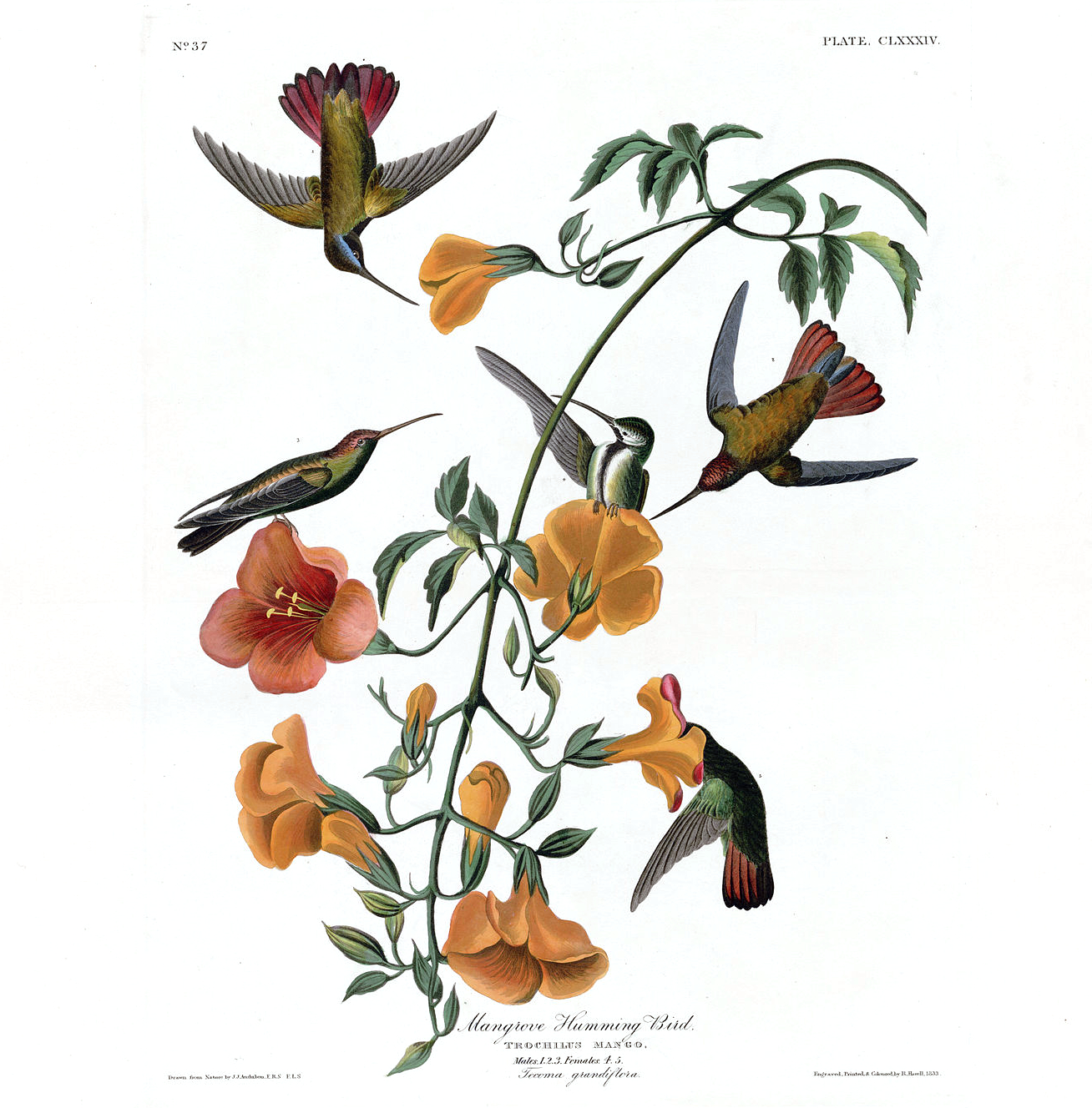 Painted in the Florida Keys (hence perhaps not of a genuine Mangrove Hummingbird)